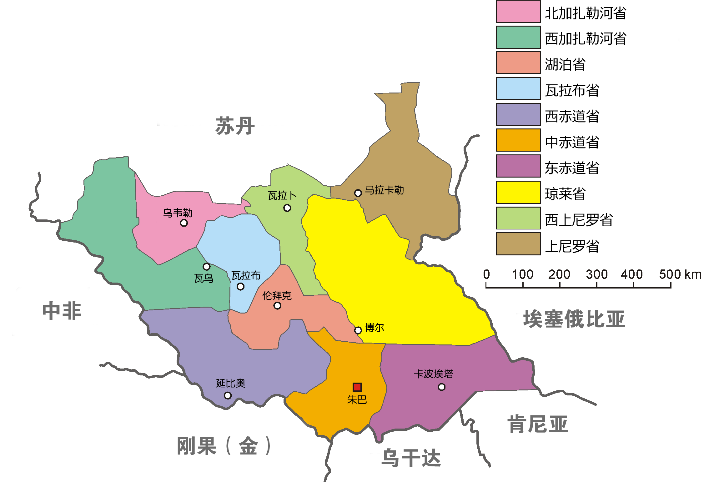 Administrative map of South Sudan. Adapted from Polish-language version by Aotearoa.